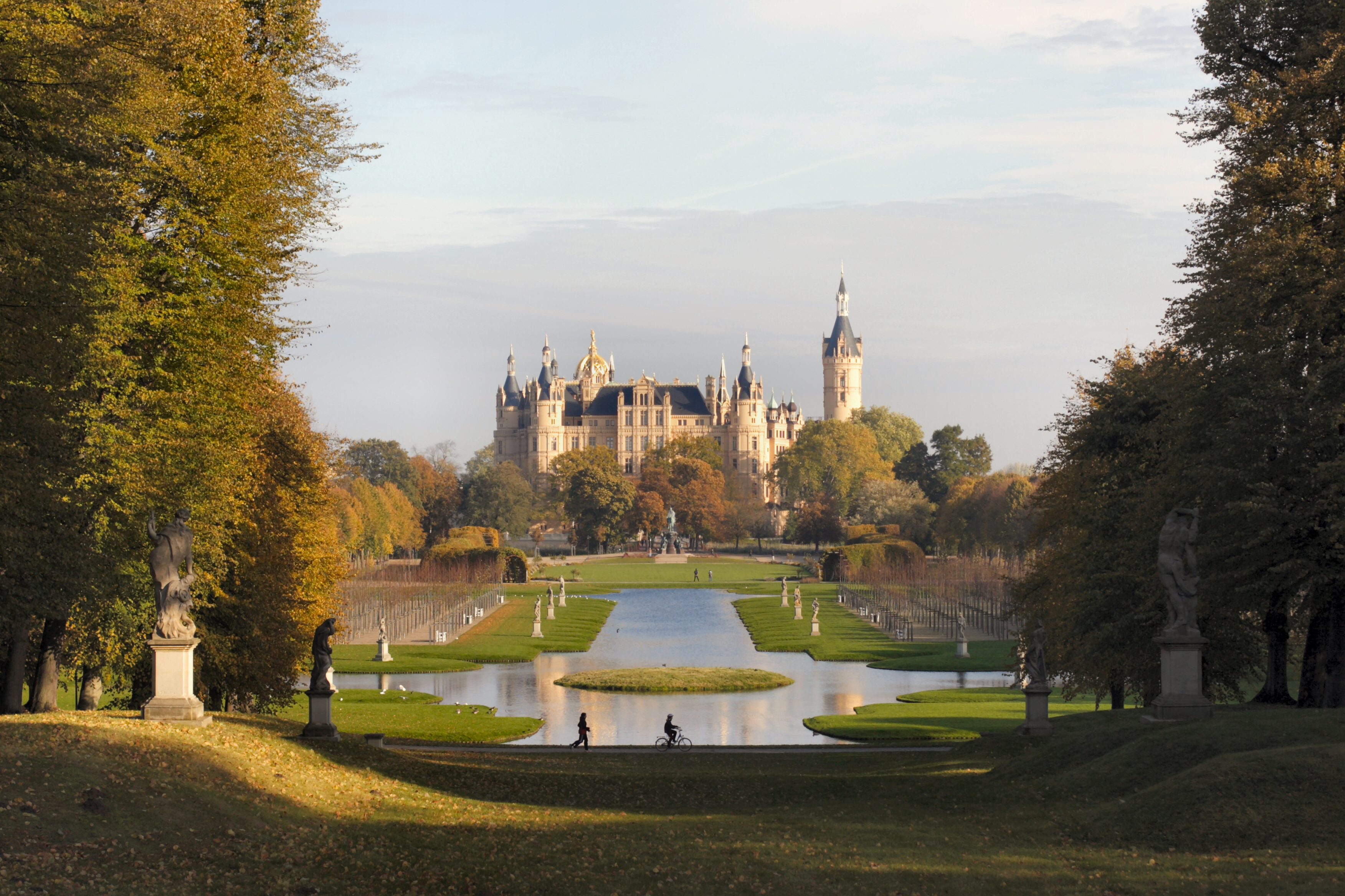 Schwerin Castle, Germany